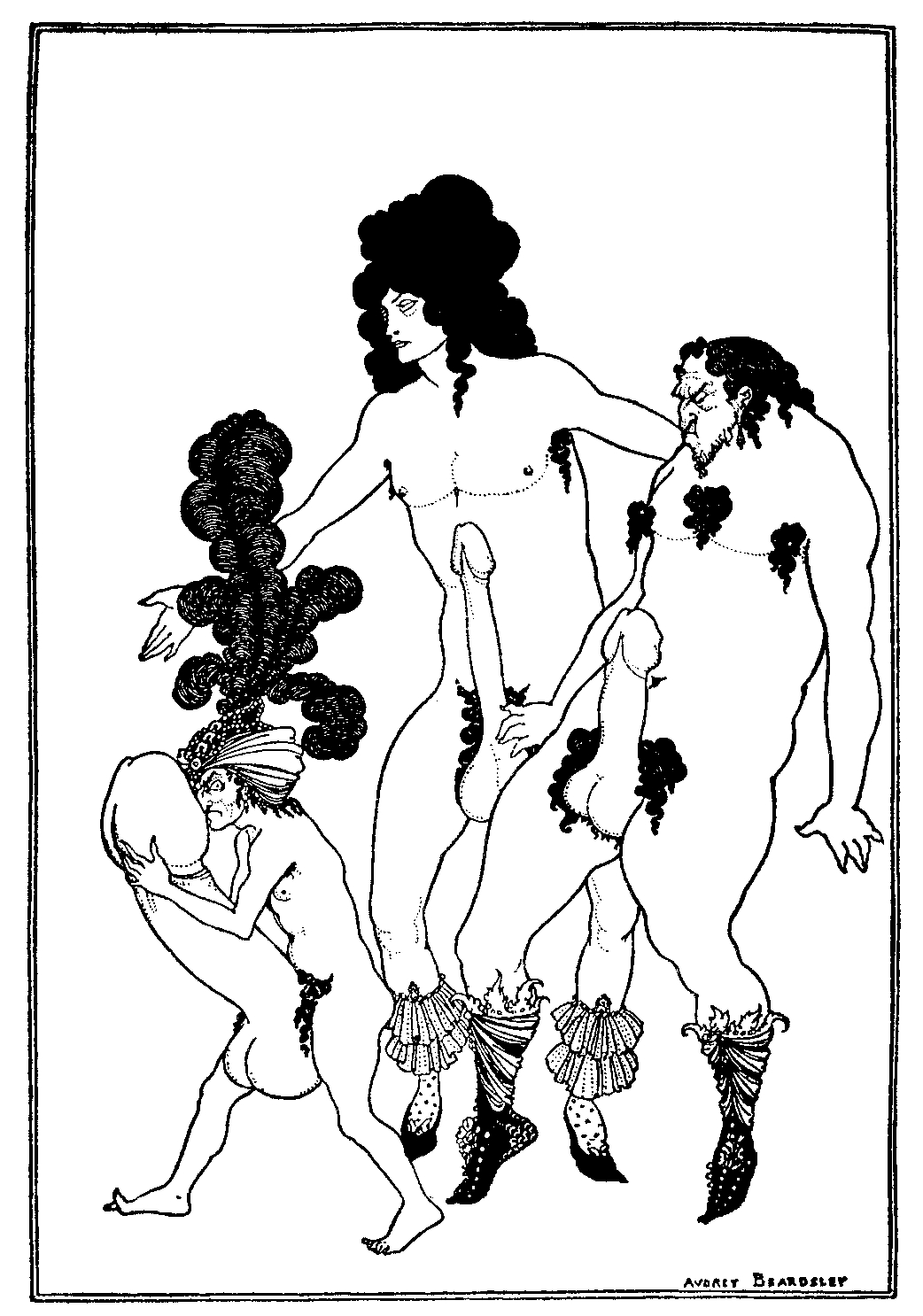 Aubrey Beardsley, Aristophanes Lysistrata, 1896, The Lacedaemonian Ambassadors